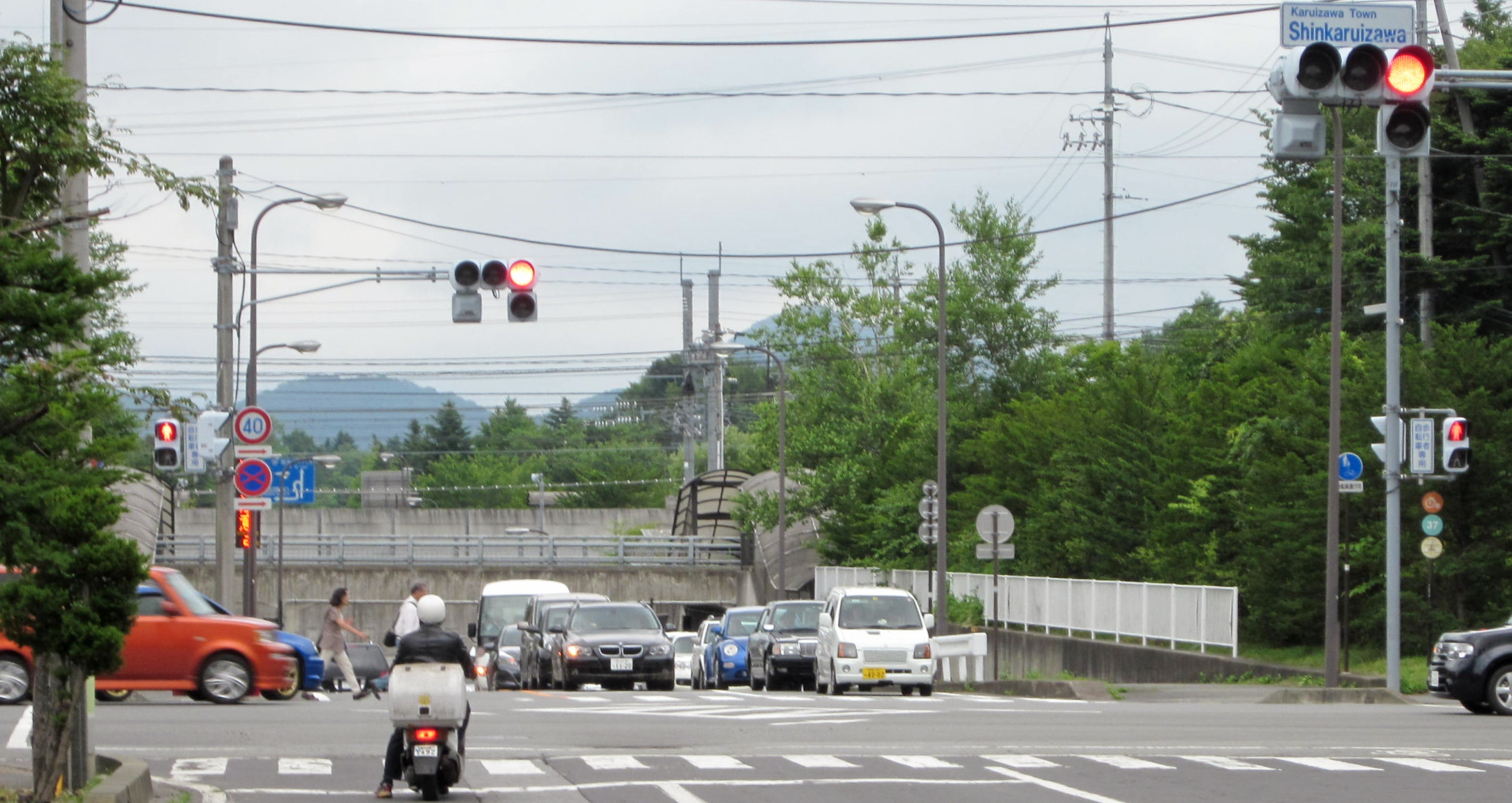 Shinkaruizawa Intersection on the National Route 18 and the Nagano Prefectural Road Route 43 in Karuizawa Town